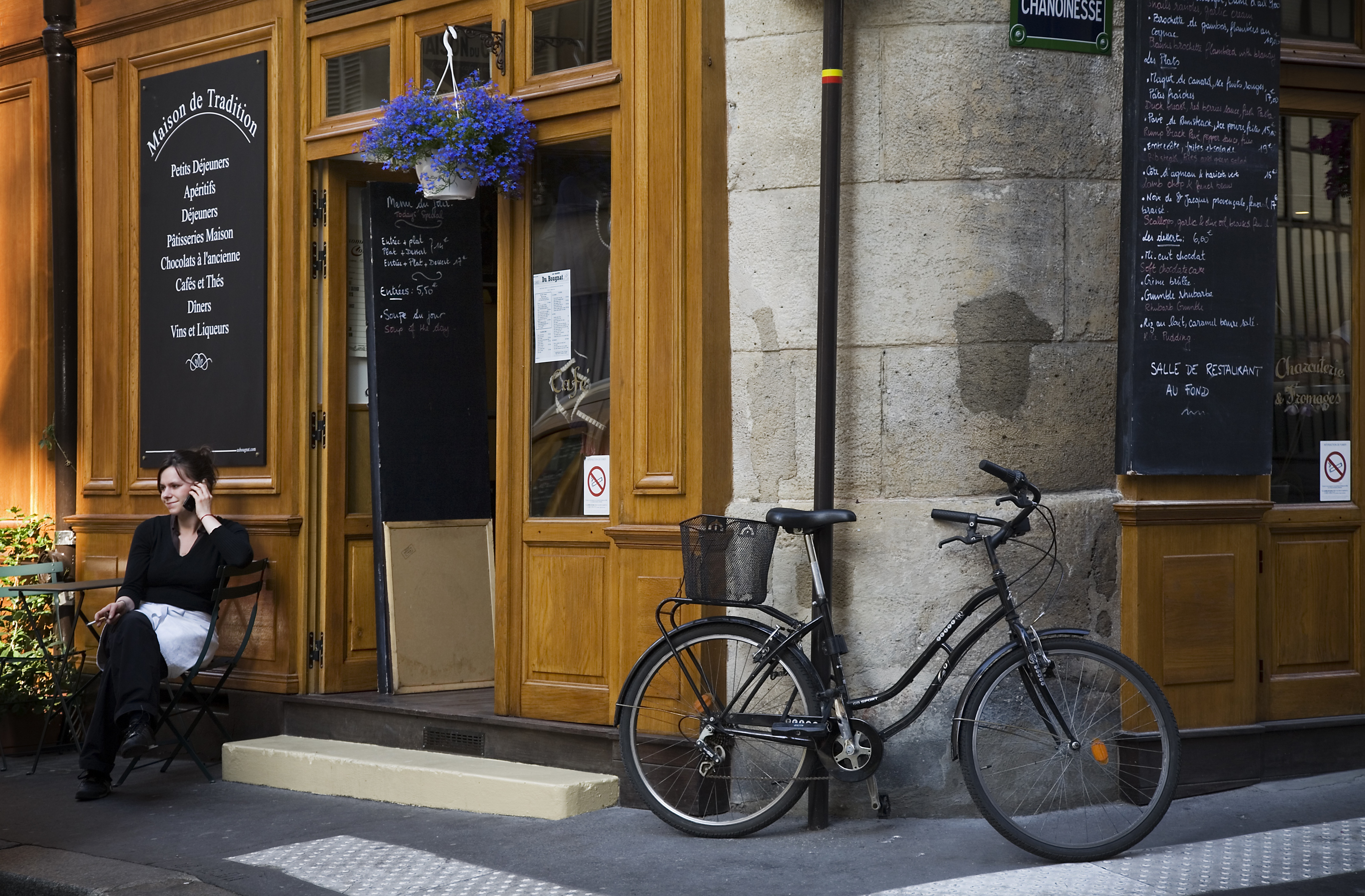 A waitress making a phone call, Au Bougnat, 26 Rue Chanoinesse, 75004 Paris, France.